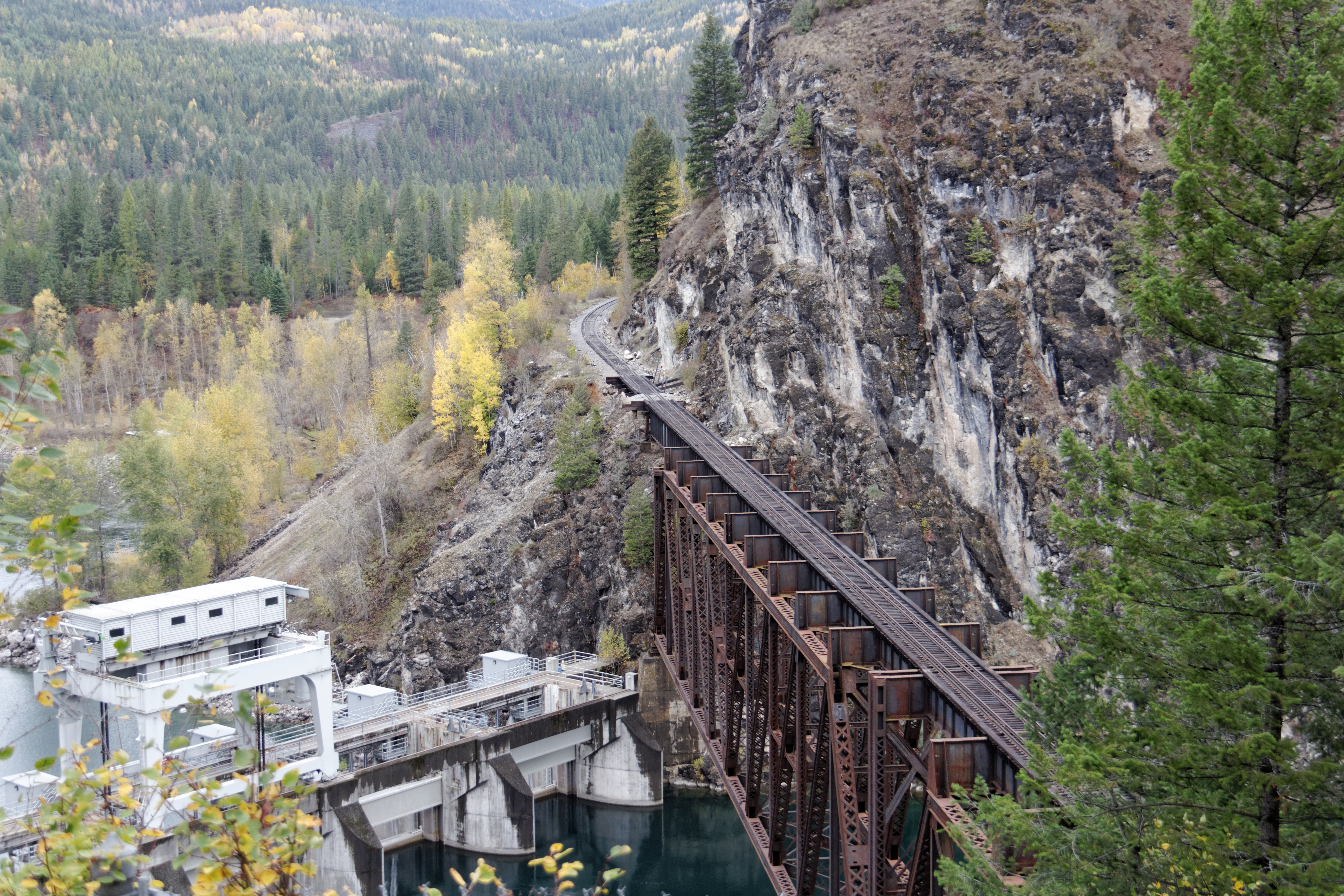 Box Canyon Trestle